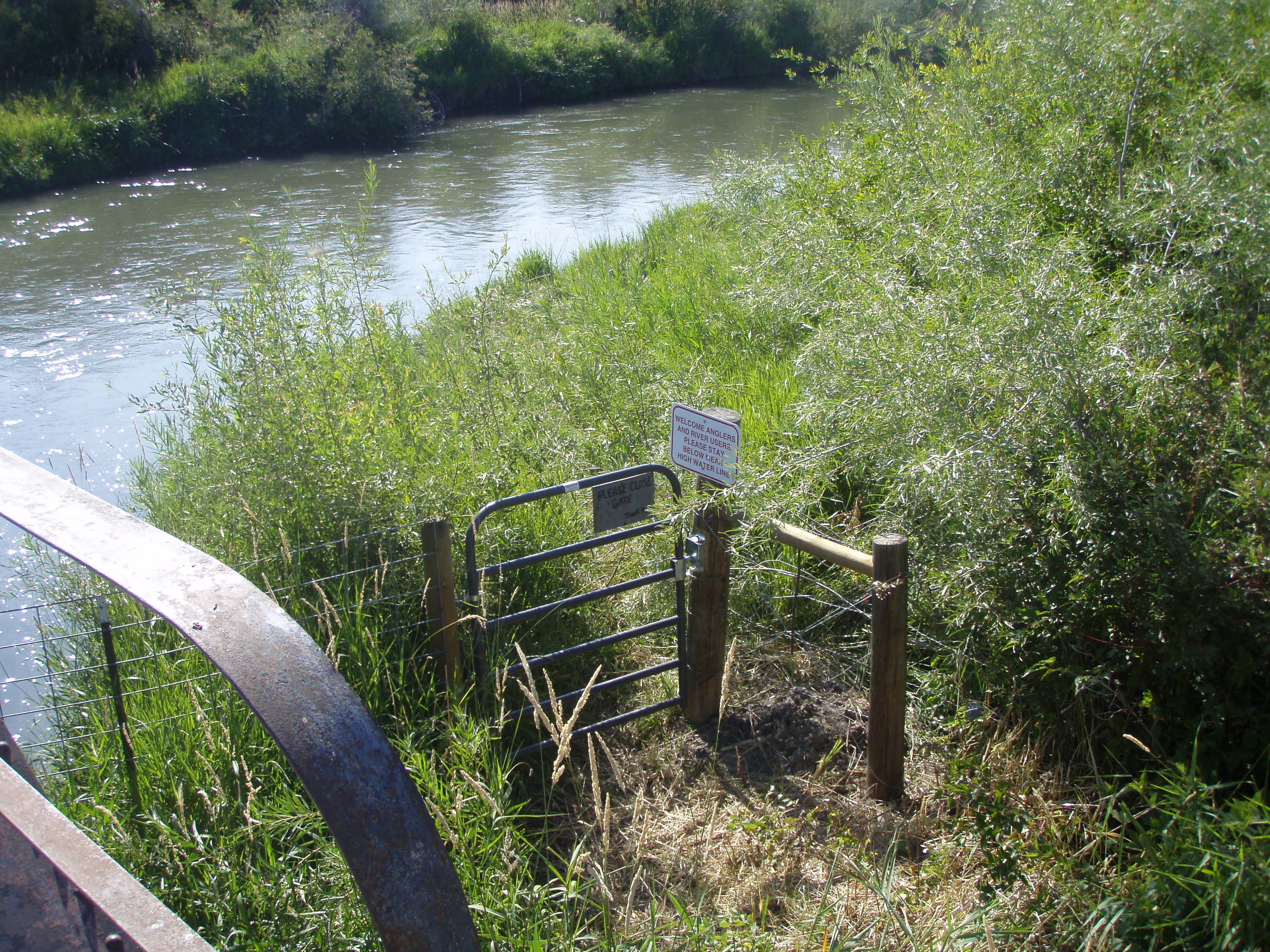 Favorably Posted County Road Bridge Access to the East Gallatin River near Belgrade, Montana